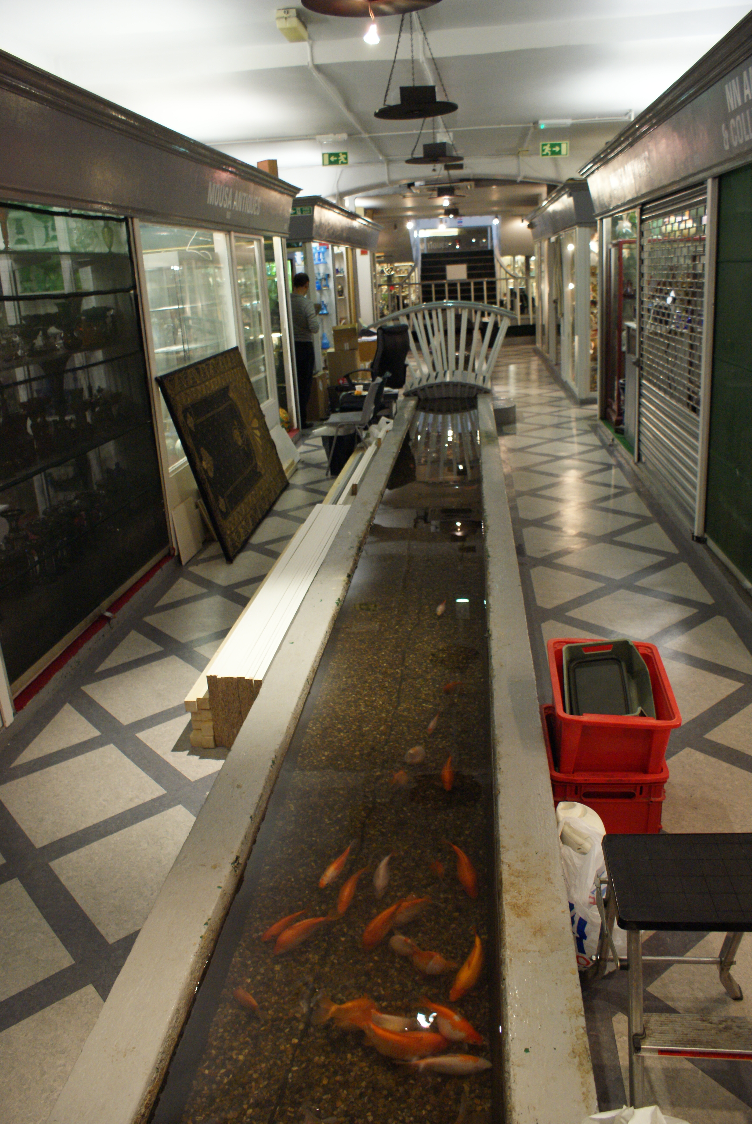 What is claimed to be a tributary of the River Tyburn in the basement of Gray's Antiques, London. In practice the River Tyburn is now a sewer so this water feature is unlikely to be connected to it.